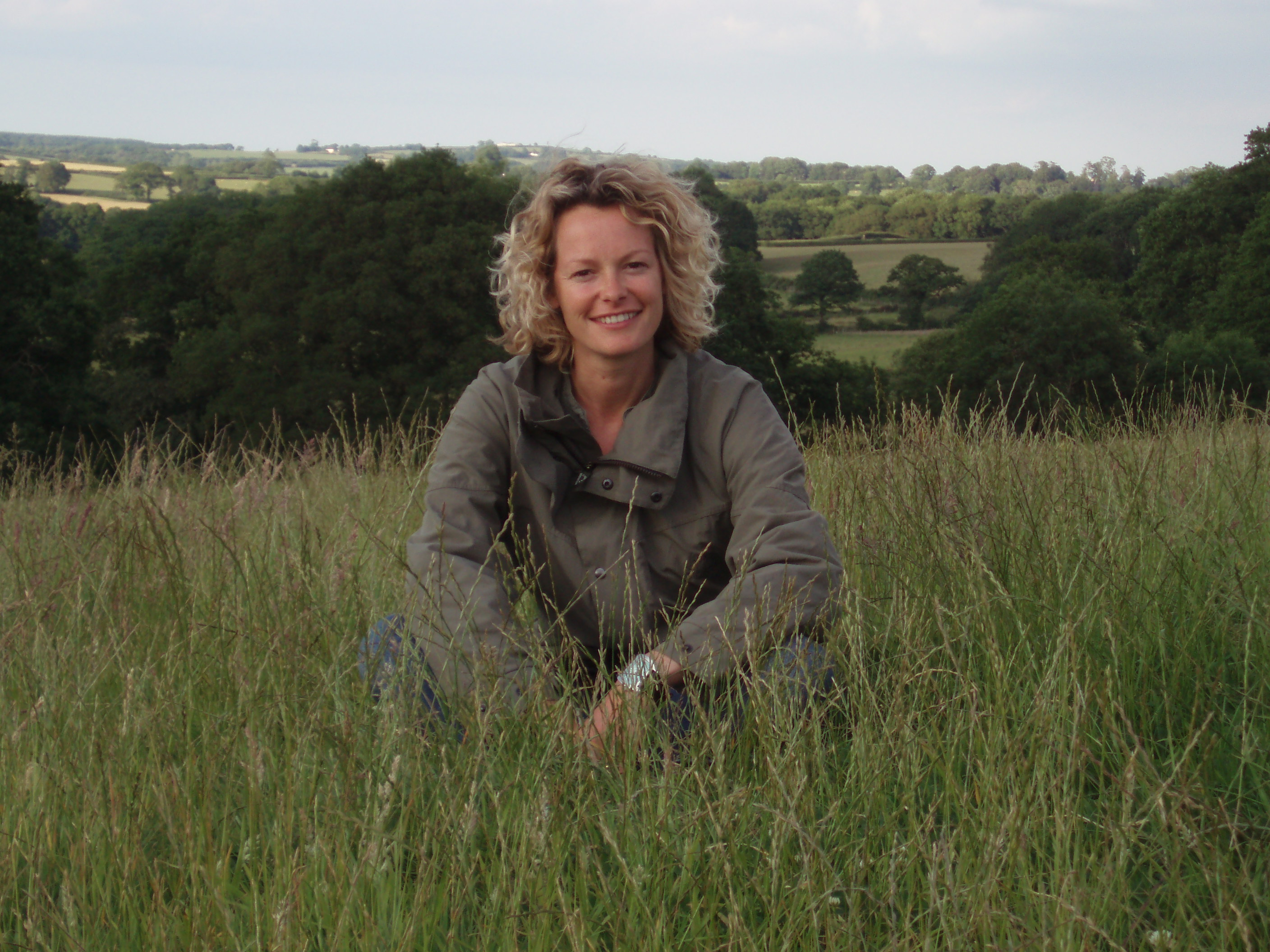 Kate Humble on Springwatch farm, England.